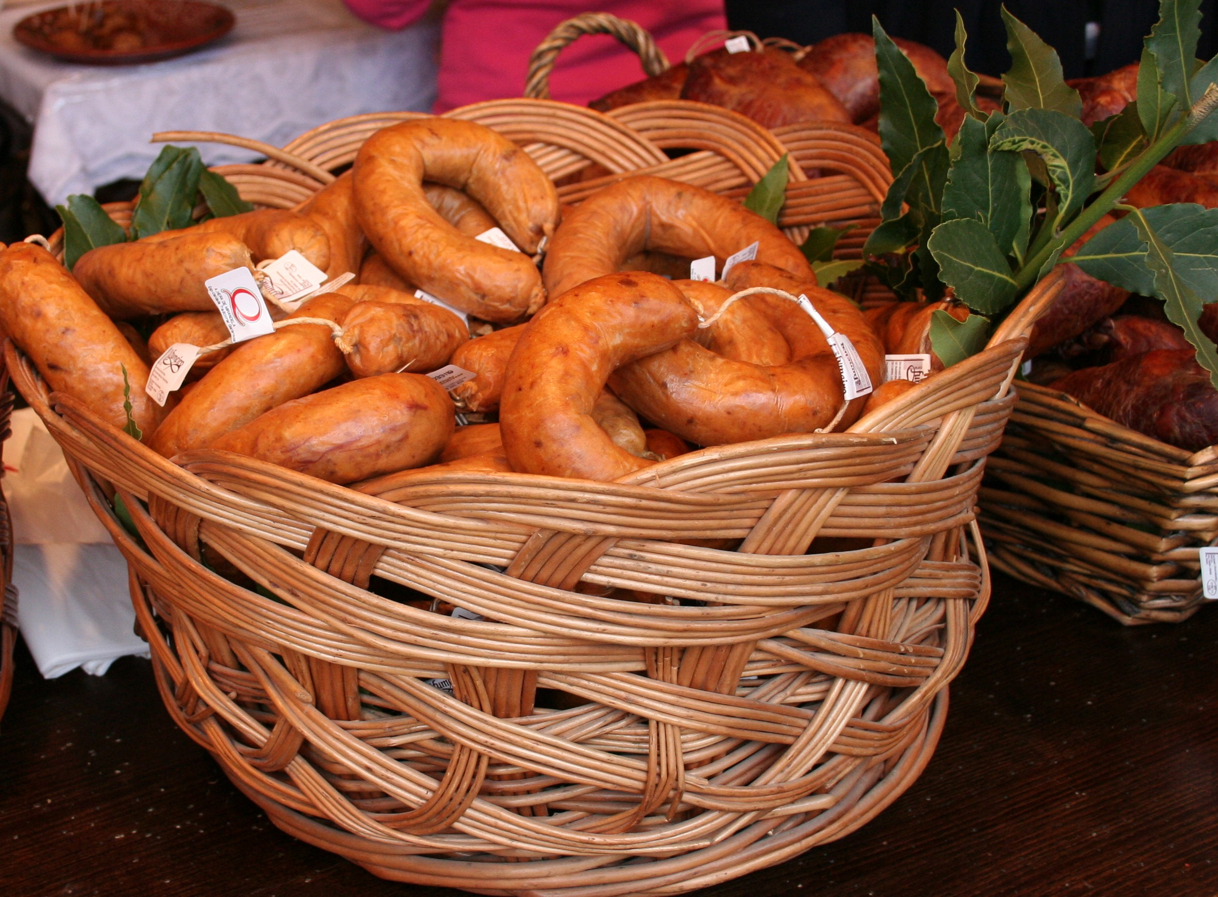 A basket of alheiras as in 2010 Fair